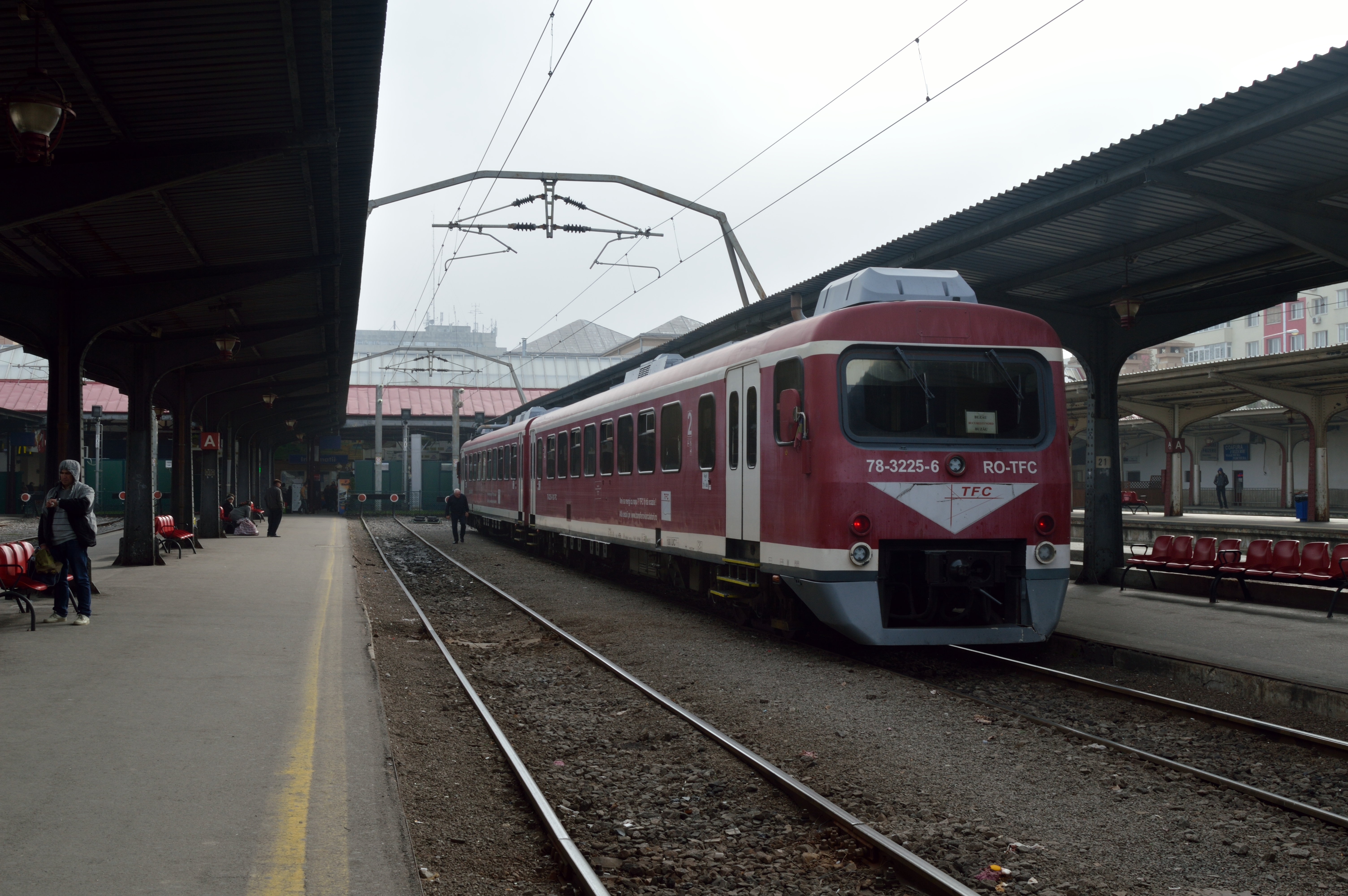 Both CFR and private passenger operators have been buying in second hand DMUs from other European countries to replace older locomotives and coaches. One operator, Transferoviar has acquired several 2-car class 3200 "Wadloper" DMU sets from Netherlands Railways (NS). Seen at București Nord on 4 November 2014, set 78.3225 is seen working train RE15053, 12:20 București Nord to Buzău